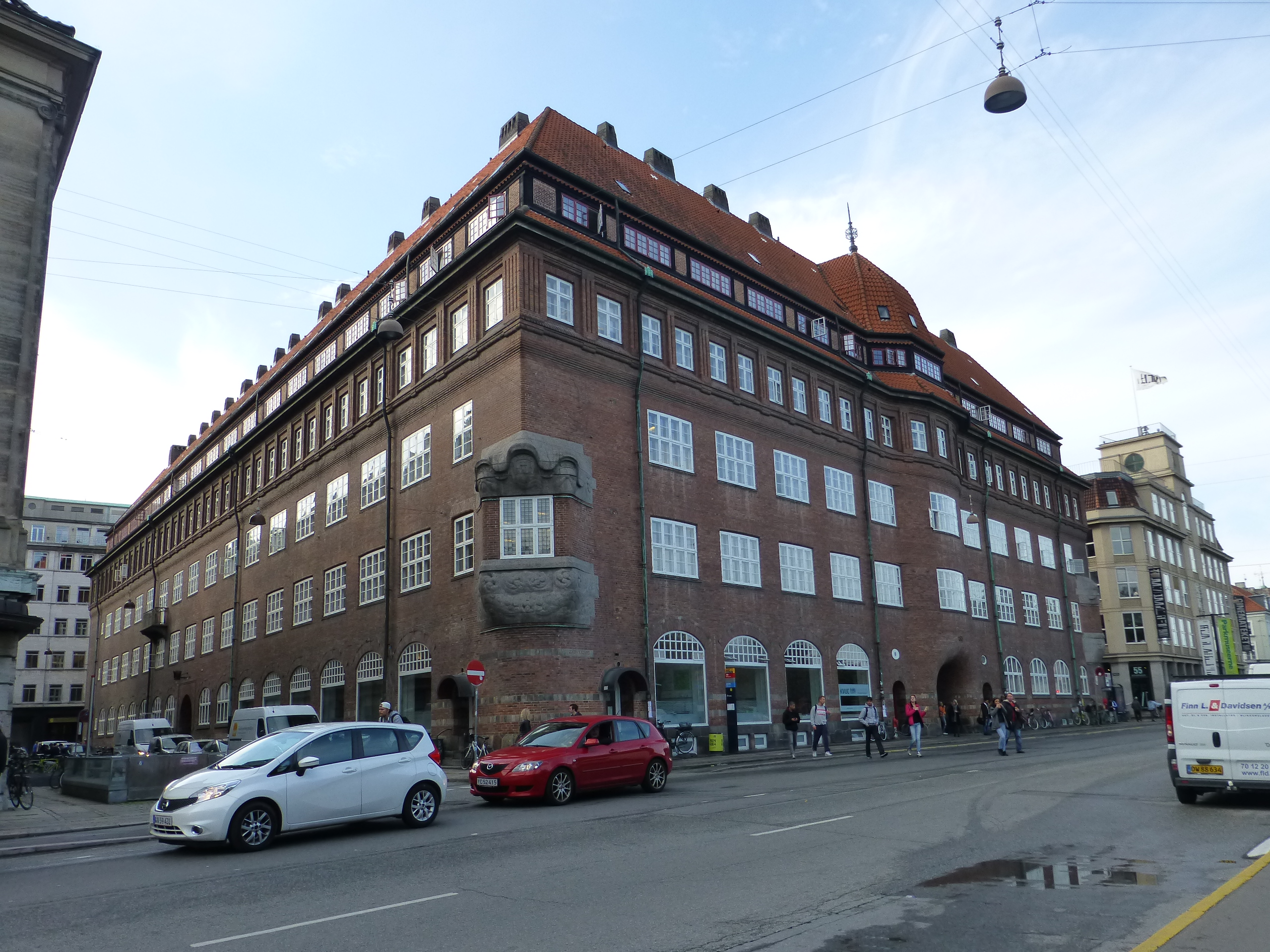 The education institution KVUC in Gothersgade in Indre By in Copenhagen. The building former housed Københavns Belysningsvæsen.